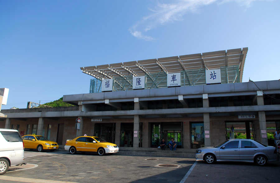 ShihCheng Station is a local train station of Yilan Line, part of Taiwan's eastern rail line. It's located within the boundary of FuLong Village, GongLiao Township, Taipei County.中文（台灣）: 福隆車站是臺鐵宜蘭線上的一座地方車站，位於臺北縣貢寮鄉福隆村。車站已改建為非常新穎的觀光車站型式。